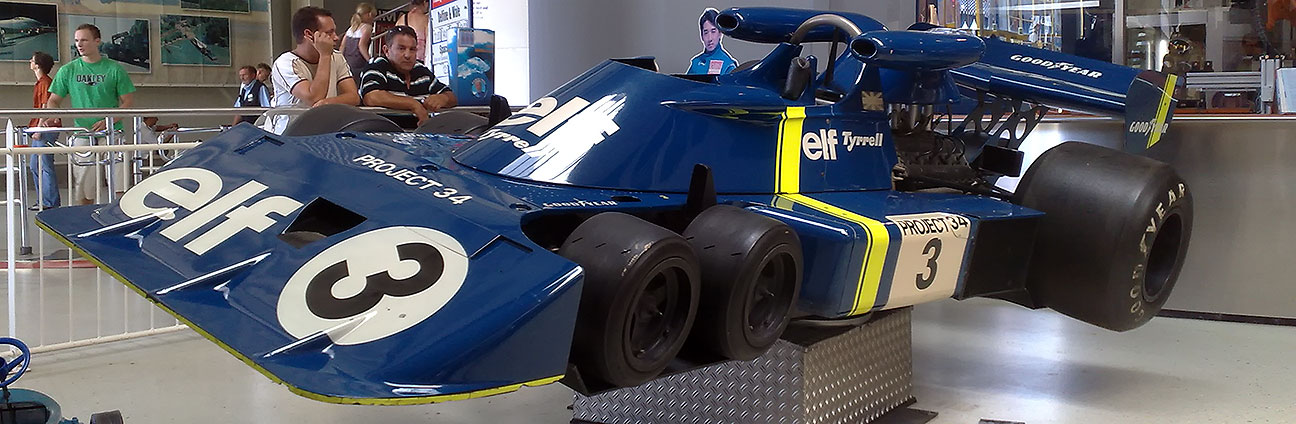 Tyrrell P34 at Auto- und Technikmuseum Sinsheim